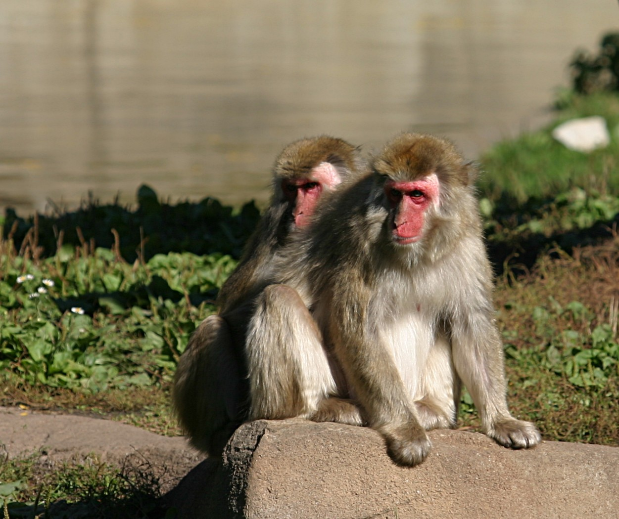 A pair of Japanese Macques at the Milwaukee County Zoological Gardens in Milwaukee, Wisconsin.